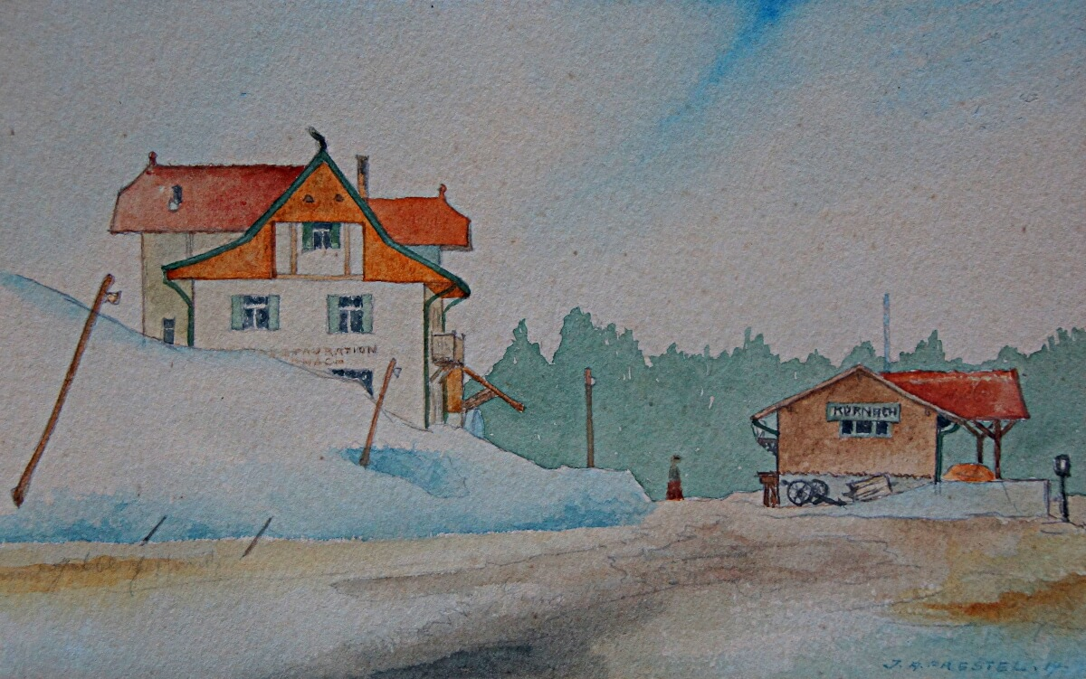 Former train station Kürnach, Buchenberg